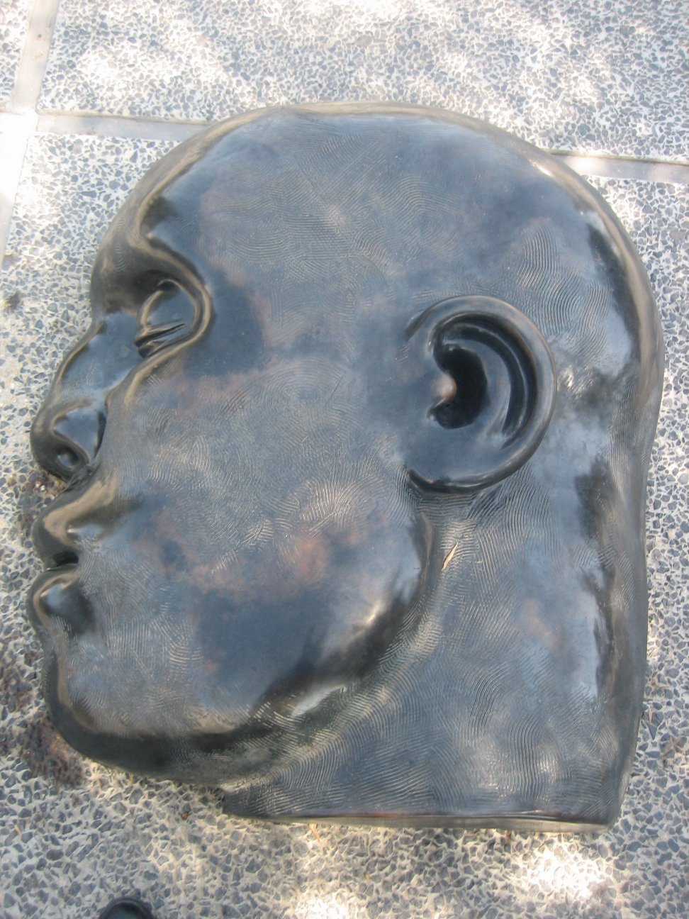 'Head', bronze sculpture by Tom Otterness (American), 1988, Israel Museum, Jerusalem, Israel